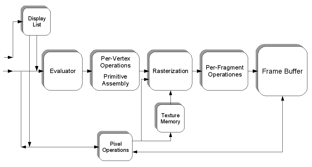 OpenGL's graphics pipeline diagram.